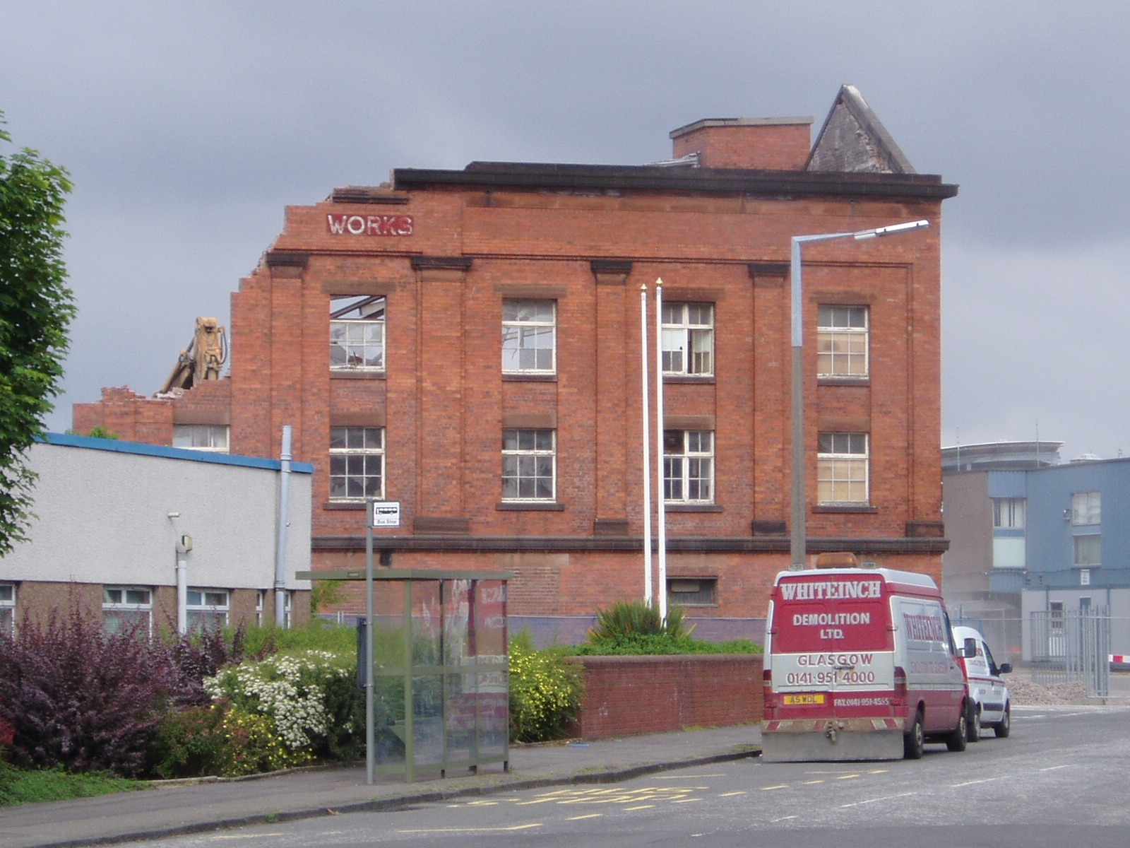 Demolition work at the former soap works in Grangemouth, Scotland